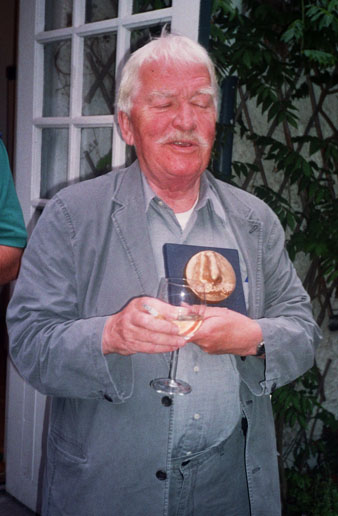 Swedish comedian, writer, film director et cetera Hans Alfredson (born 1931) with a golden casting of his own nose.